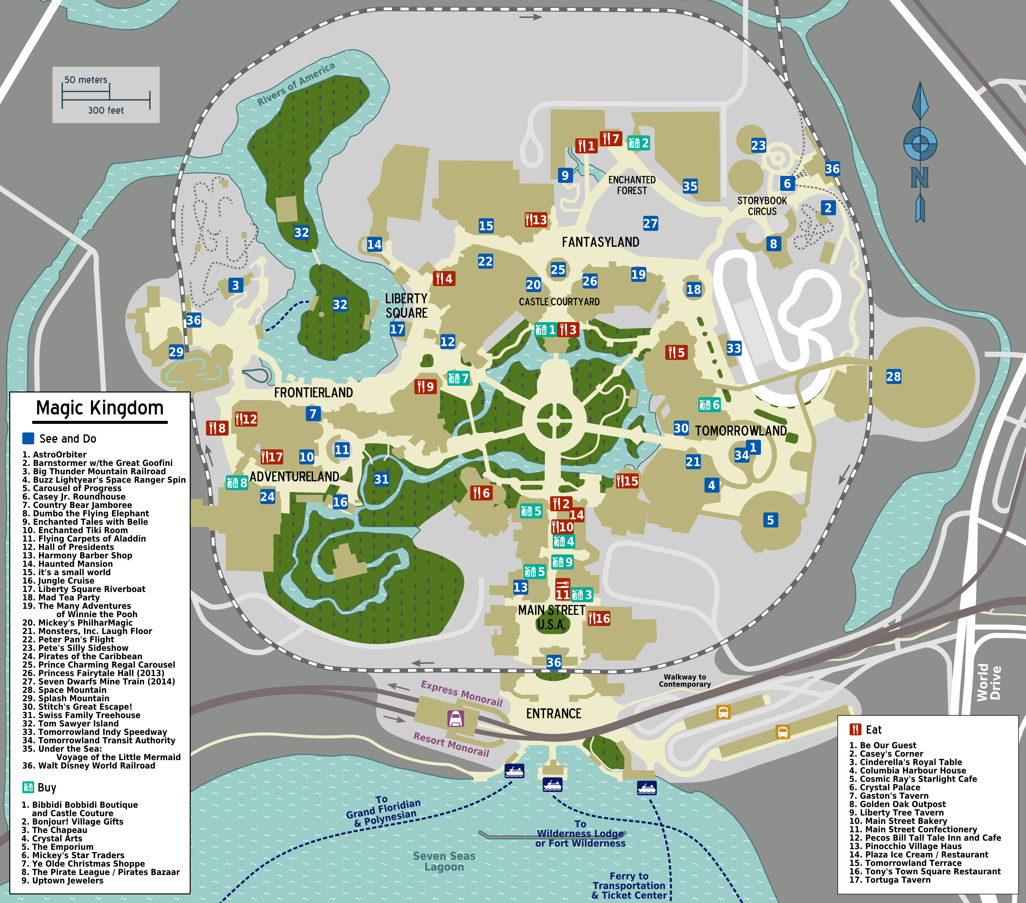 Map of the Magic Kingdom at Walt Disney World in Florida